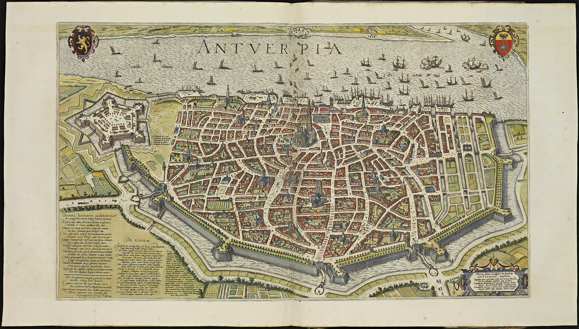 Plate 'pl071'(Antwerpen) from the Stedenboek (citybook) by Frederick de Wit.